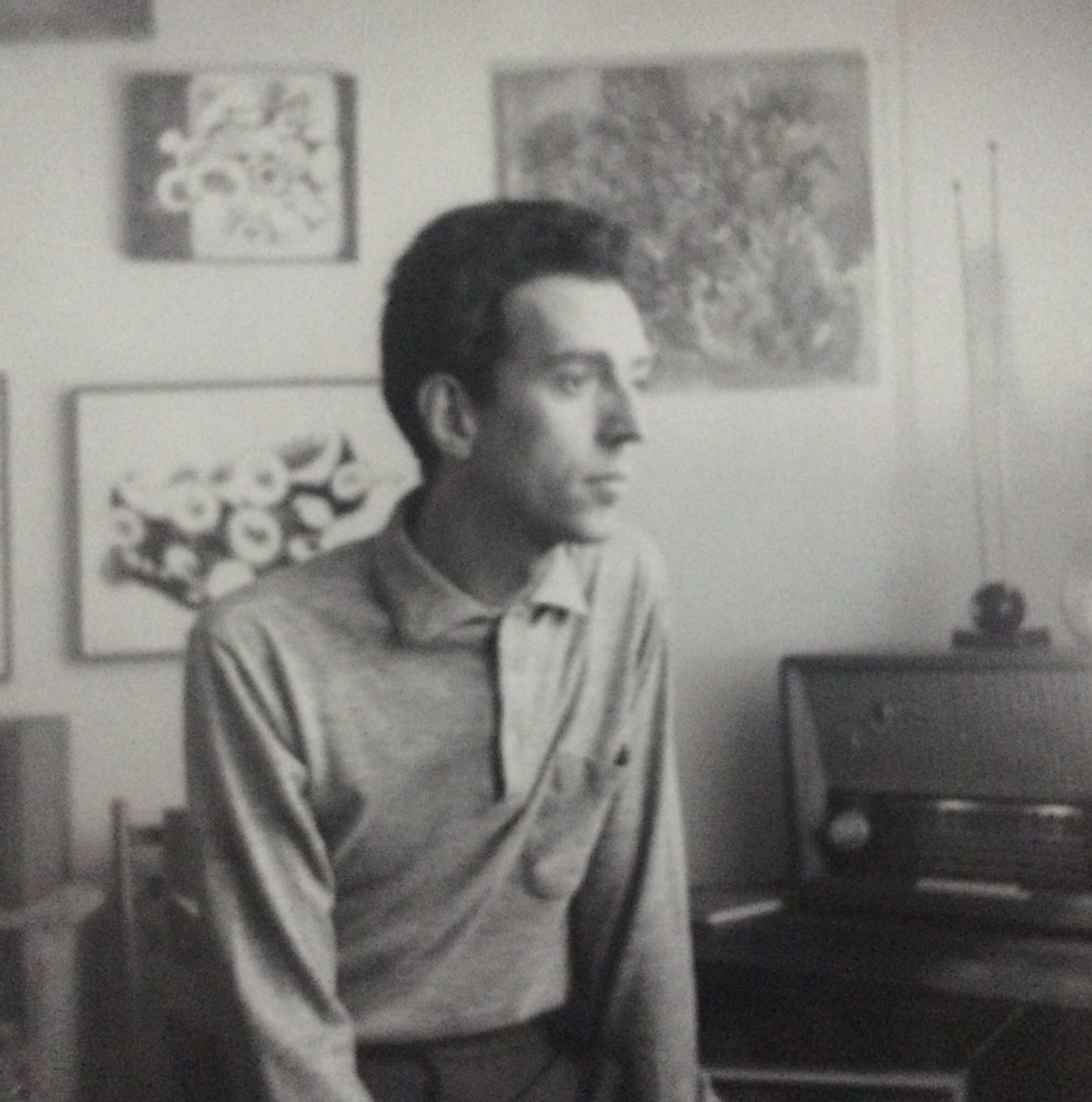 Portrait of artist Gentile Tondino circa 1955